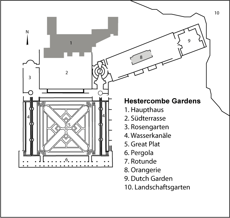 Plan from Hestercombe House & Gardens (own work after an original plan showing in: Mader & Neubert-Mader: Britische Gartenkunst. p. 66